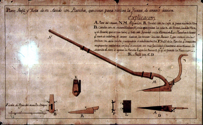 Drawing depicting a plow and other farm's tools for their use in Spanish colonies in Patagonia